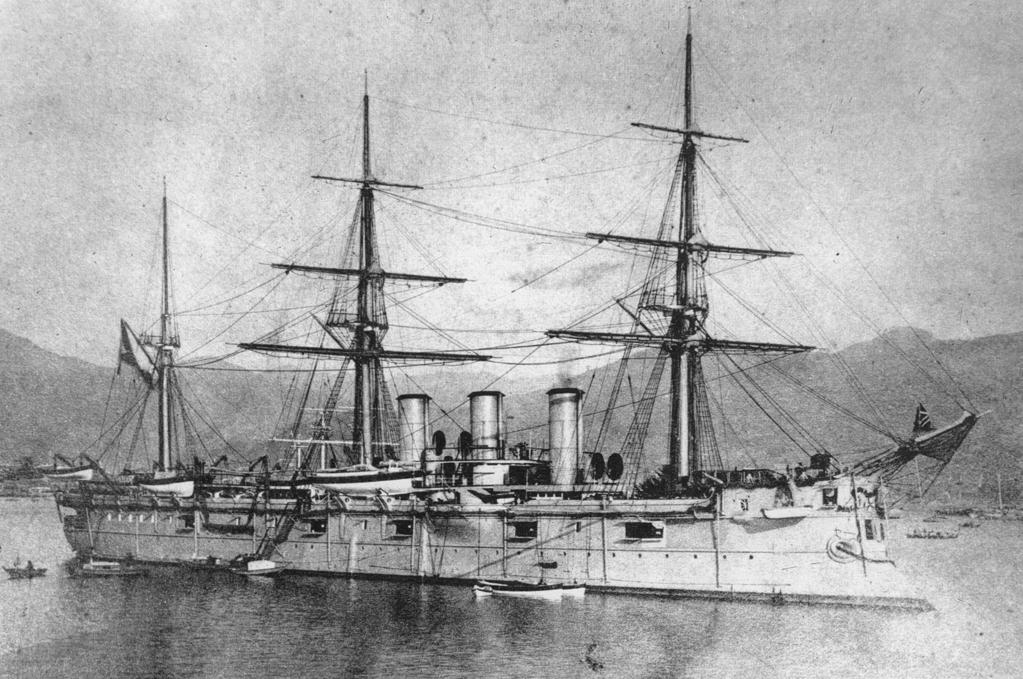 The Imperial Russian armoured cruiser Pamiat’ Azova.